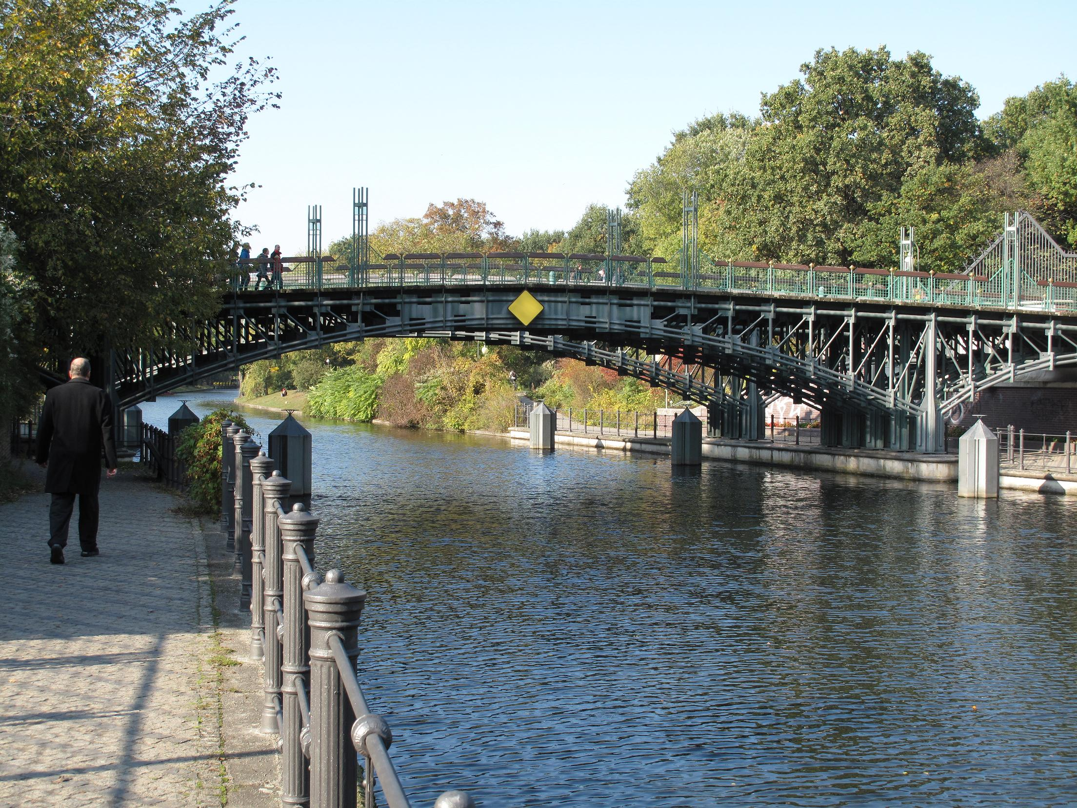 Lichtensteinbrücke (bifided footbridge), crossing the Landwehrkanal (canal) in Berlin-Tiergarten and connecting among others two parts of the Zoological Garden.